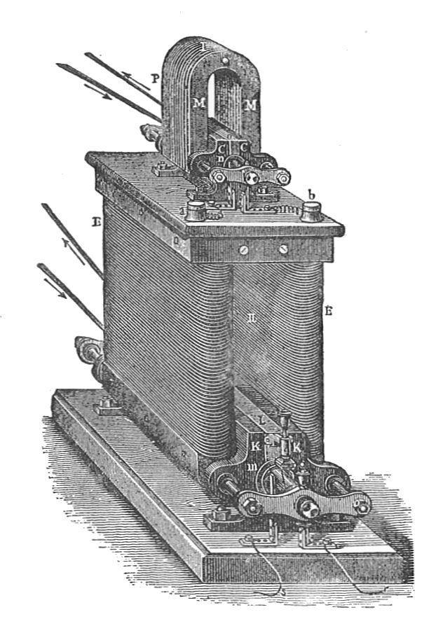 Wilde's self-exciting magneto alternator (Rankin Kennedy, Electrical Installations, Vol III, 1903).jpg